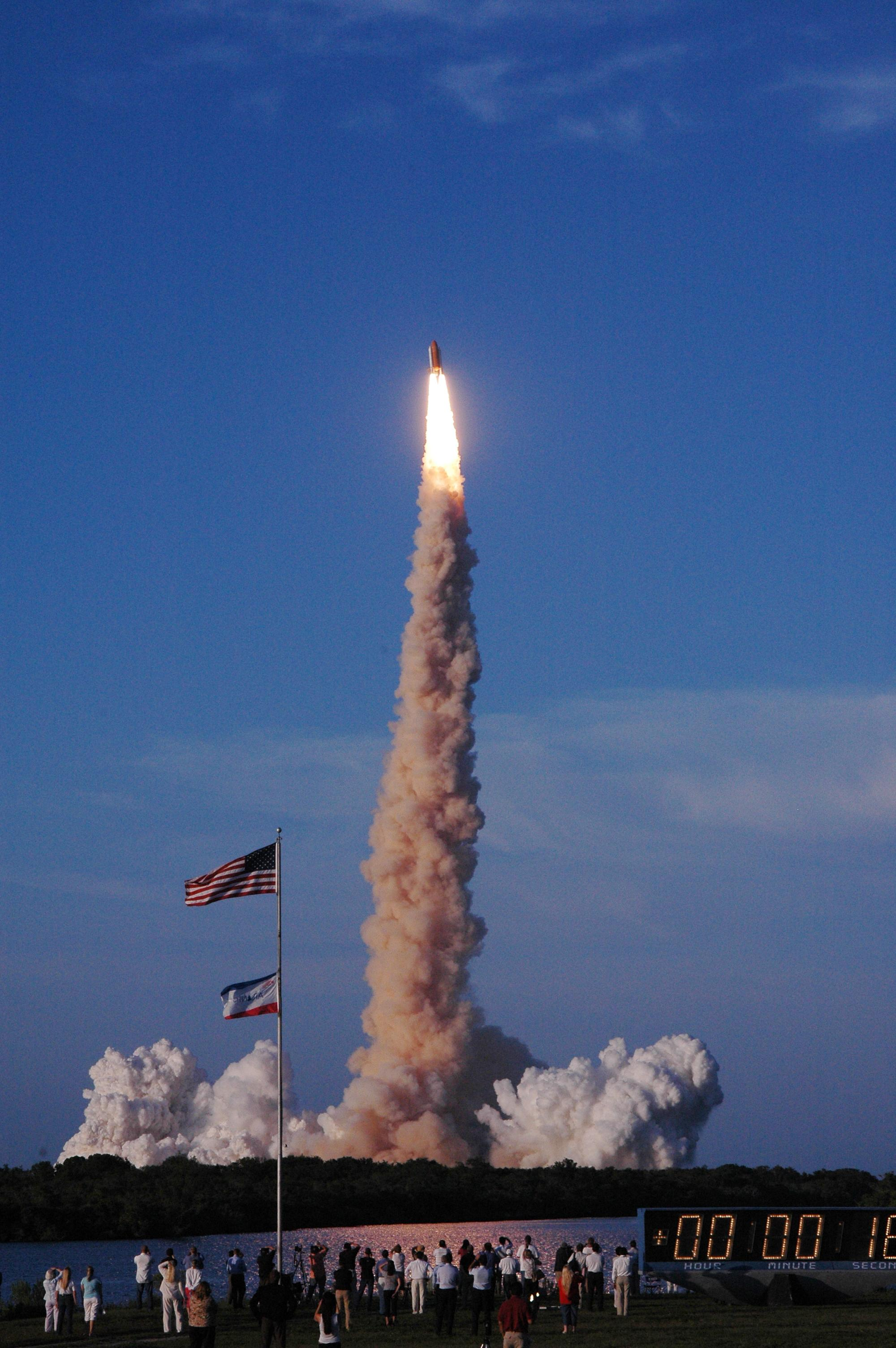 Launch of Space Shuttle Atlantis on STS-117